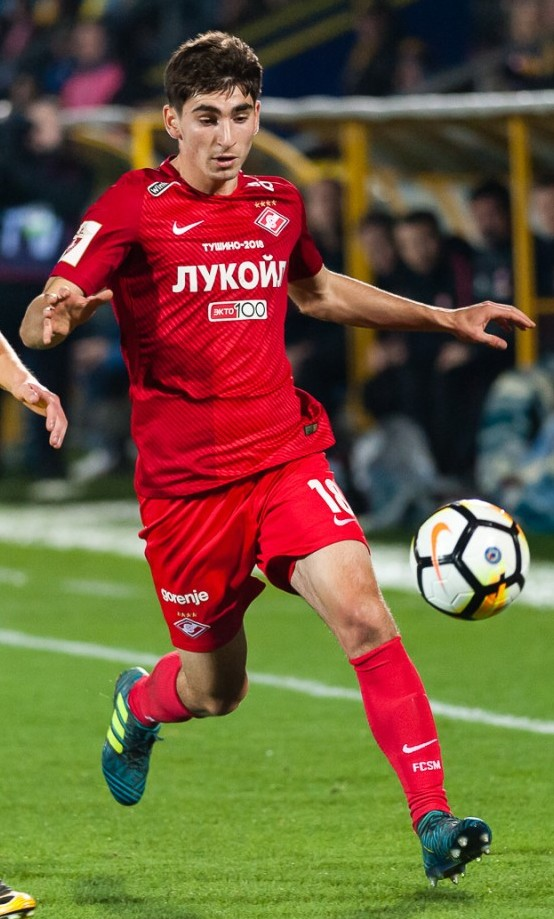 Zelimkhan Bakayev, Vitali Yuryevich Ustinov